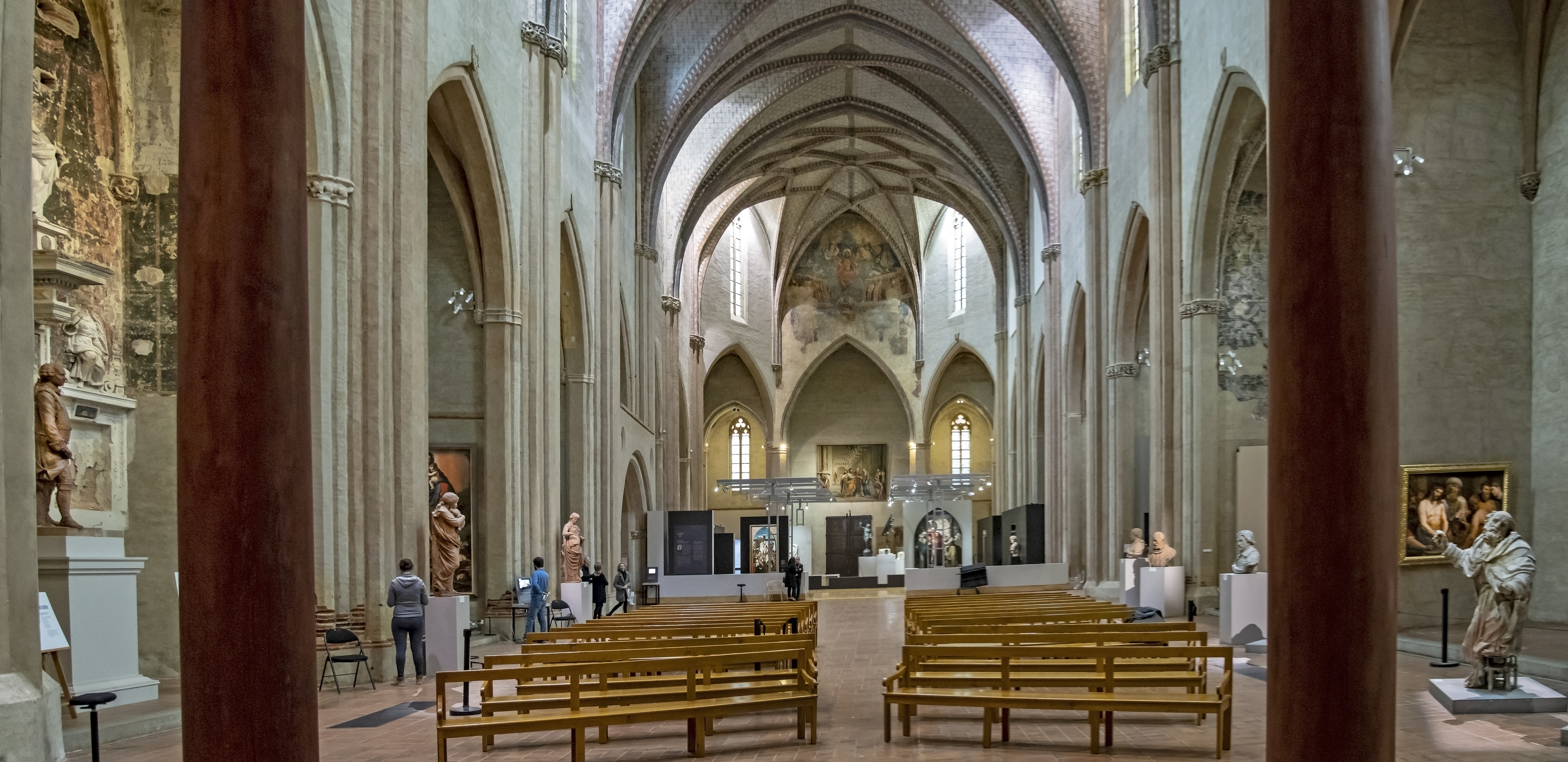 Interior of the church, in the Augustinian Museum of Toulouse.